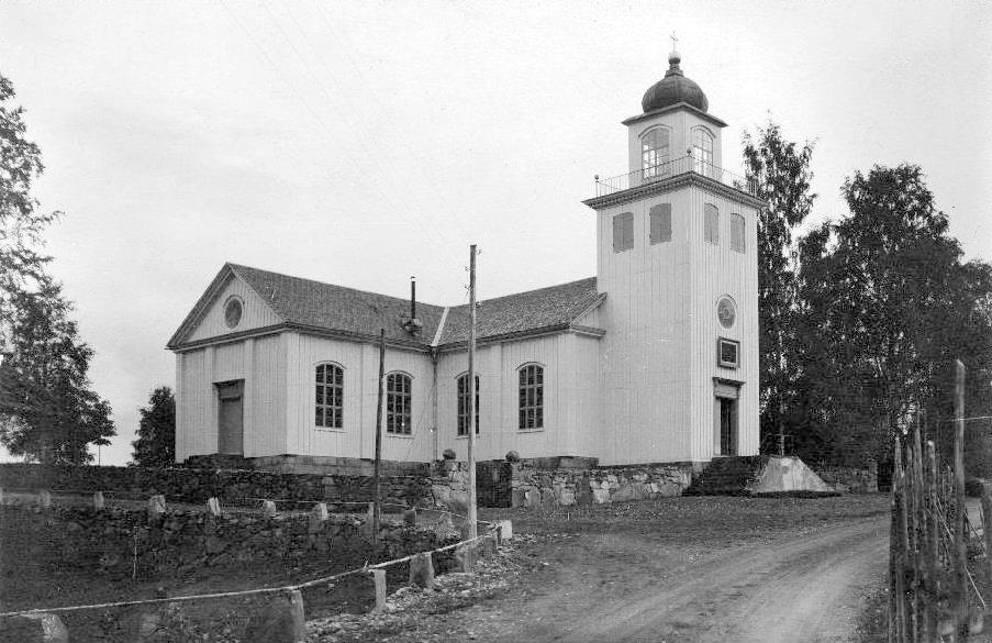 Vitsand church seen from the north-west